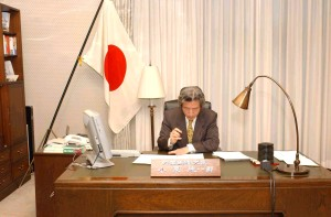 Jun'ichirō Koizumi, Prime Minister, performed duties at the Prime Minister's Official Residence in Chiyoda Ward, Tōkyō Metropolis on April 26, 2002.